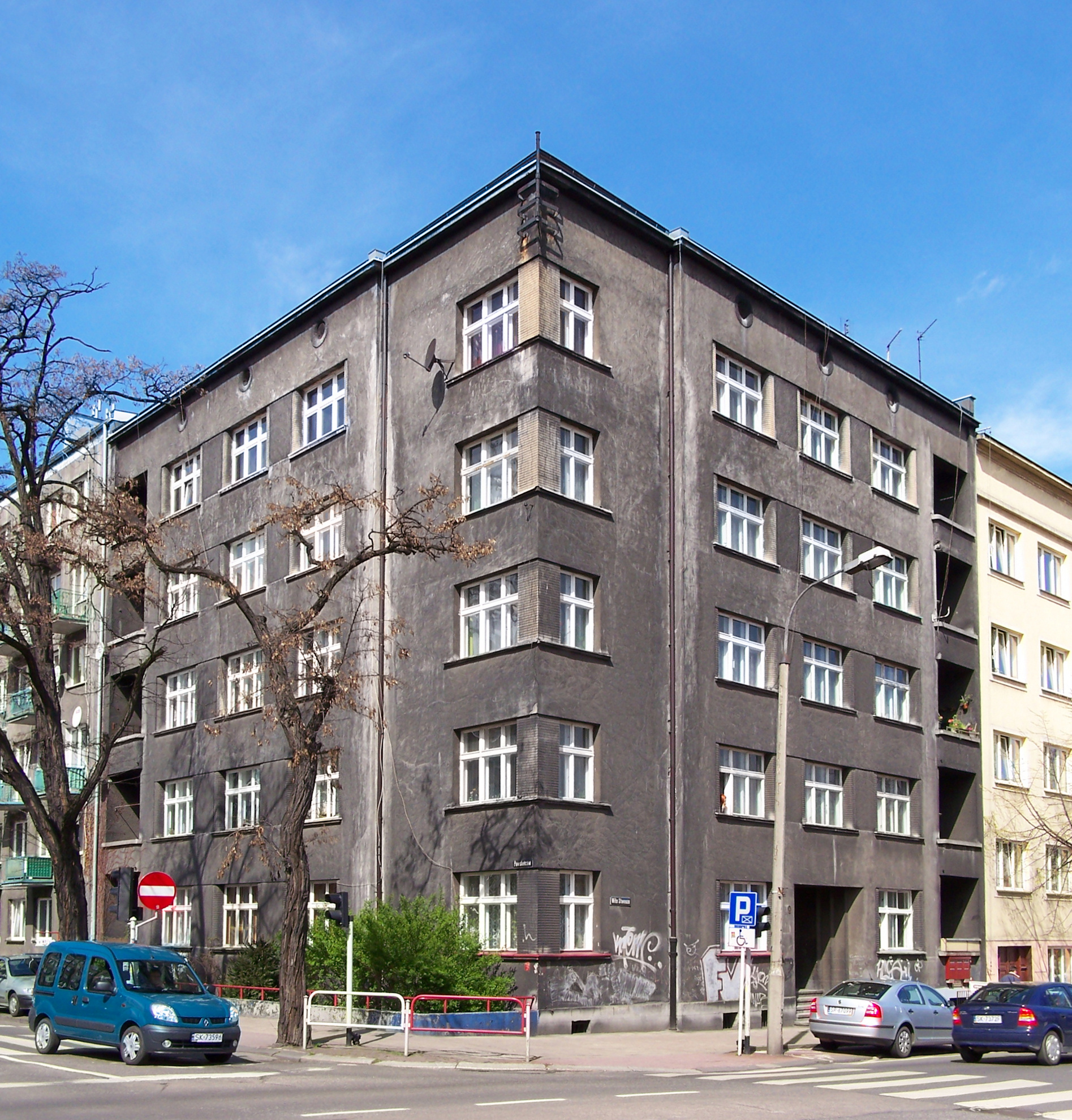 House in Katowice (Poland).